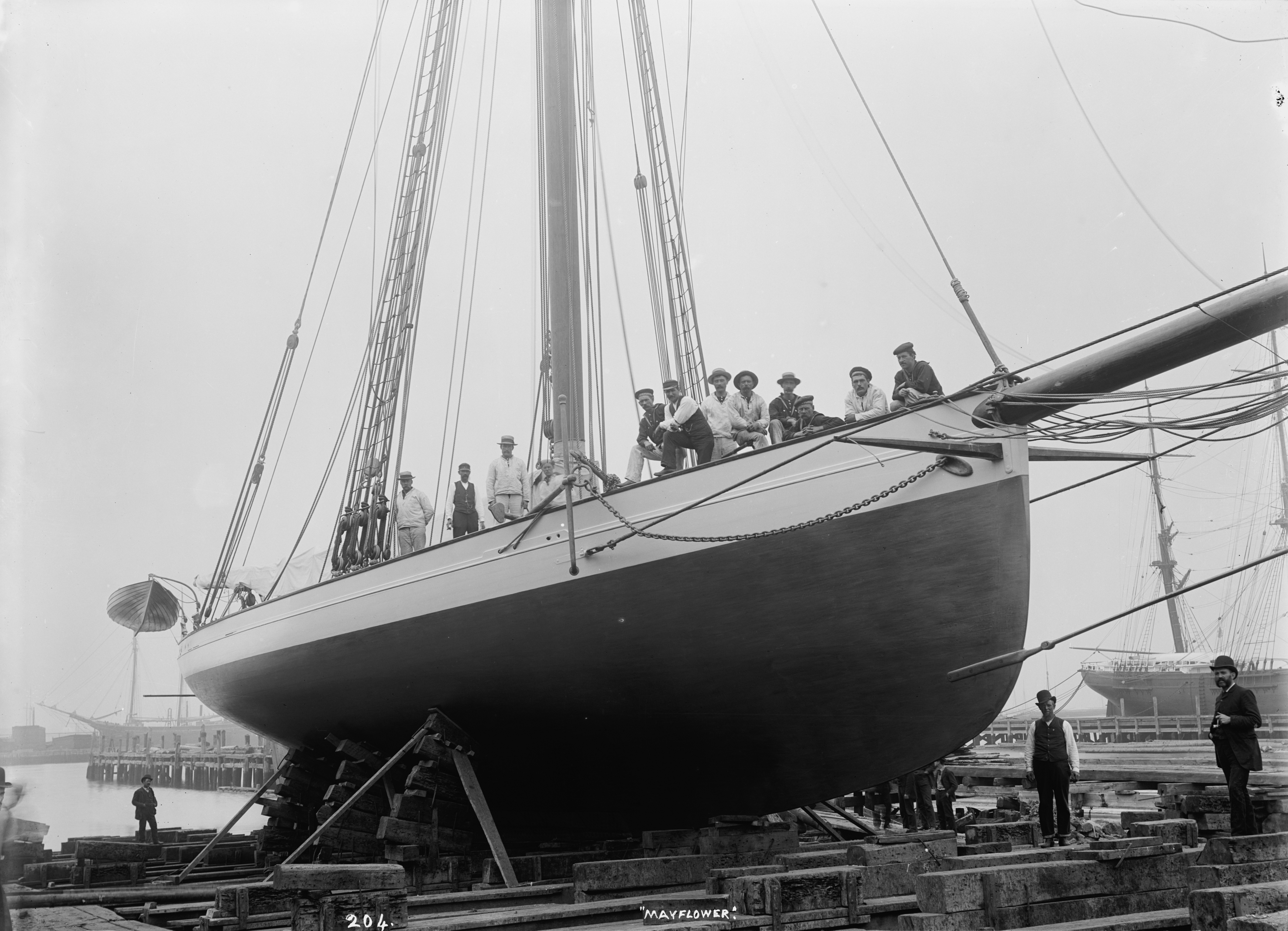 the Mayflower, built by George Lawley & Son, MA